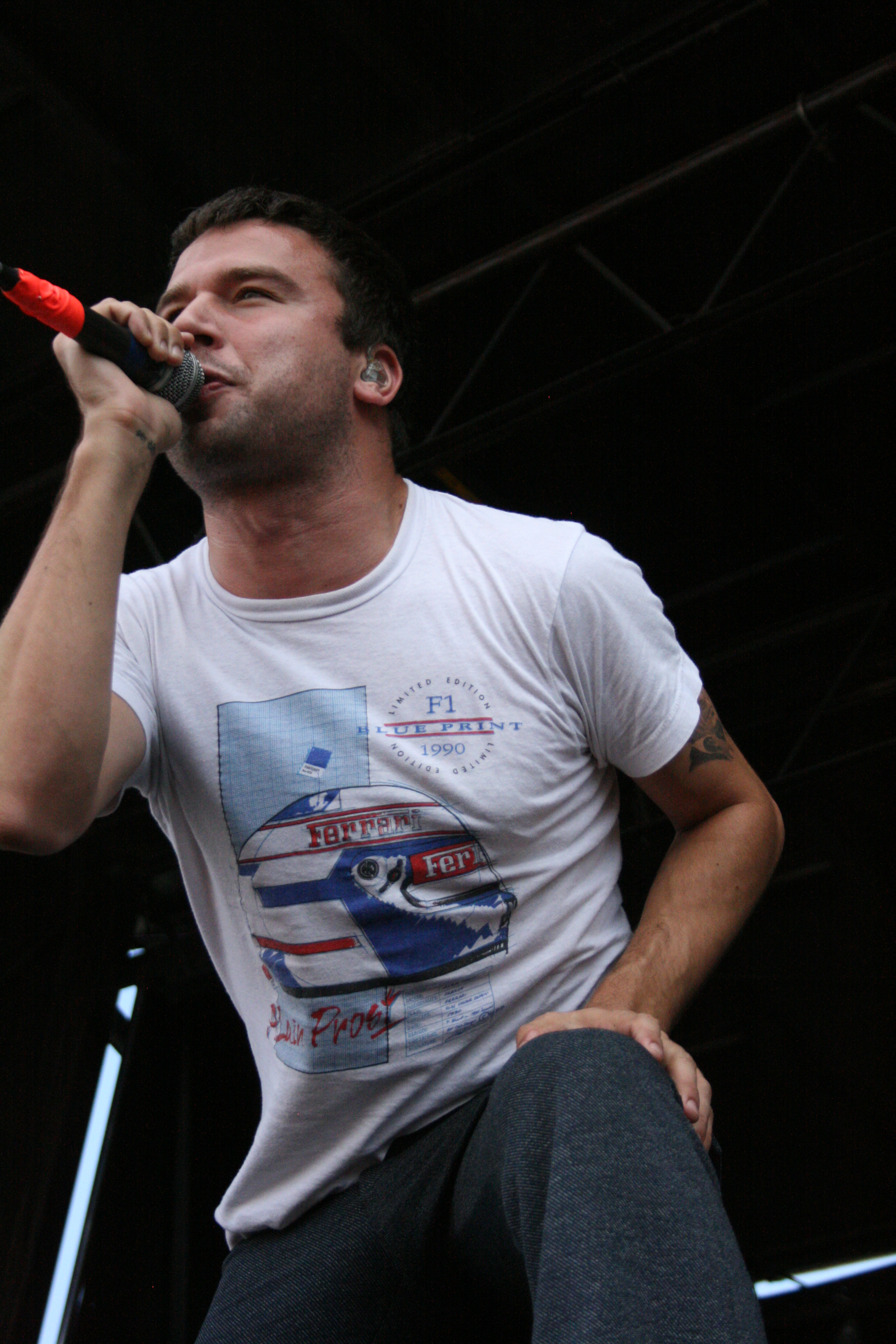 Max Bemis of Say Anything performing in Chula Vista, California on August 14, 2008 at the Warped Tour.